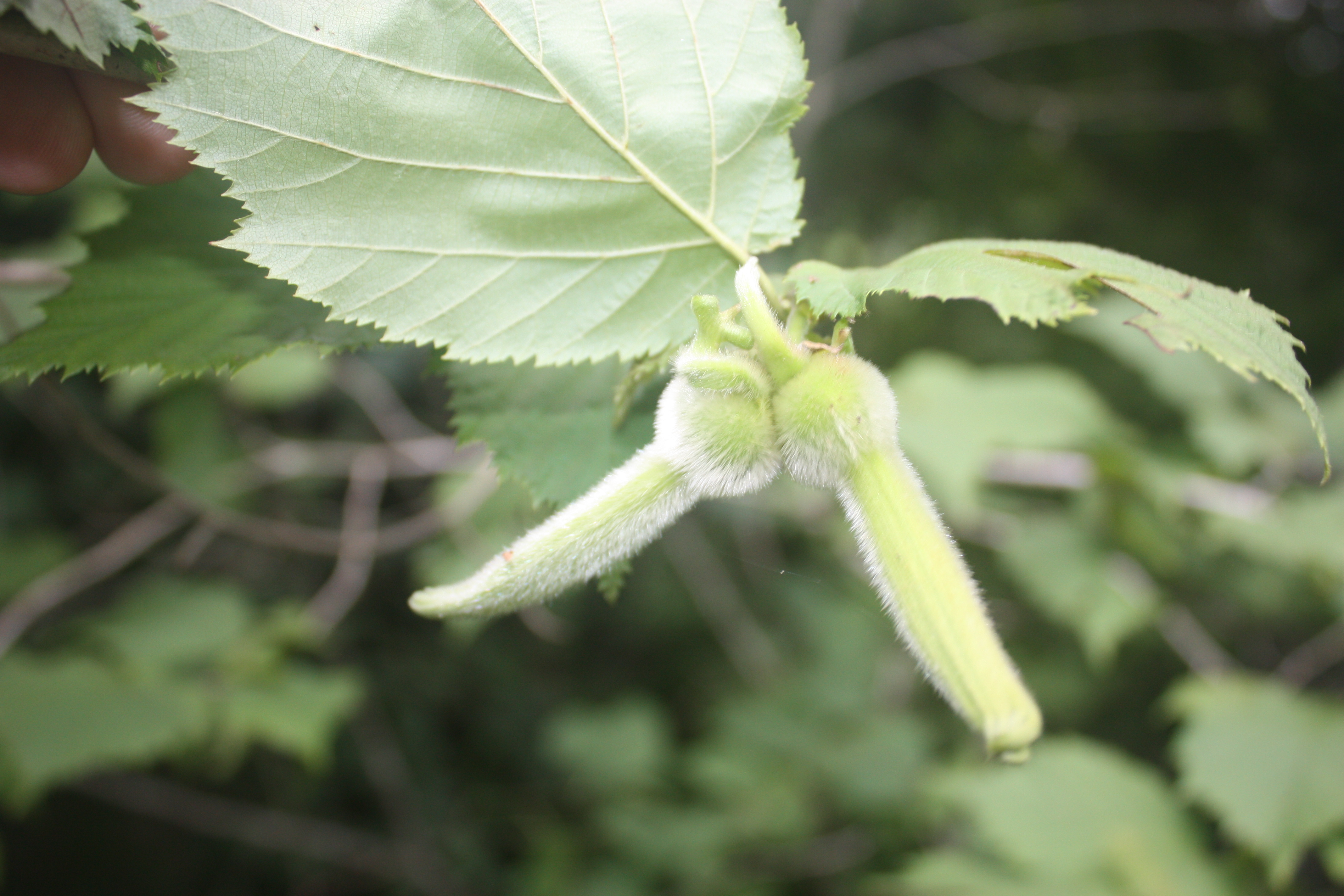 Corylus sieboldiana, Baemsagol valley, Jirisan, South Korea